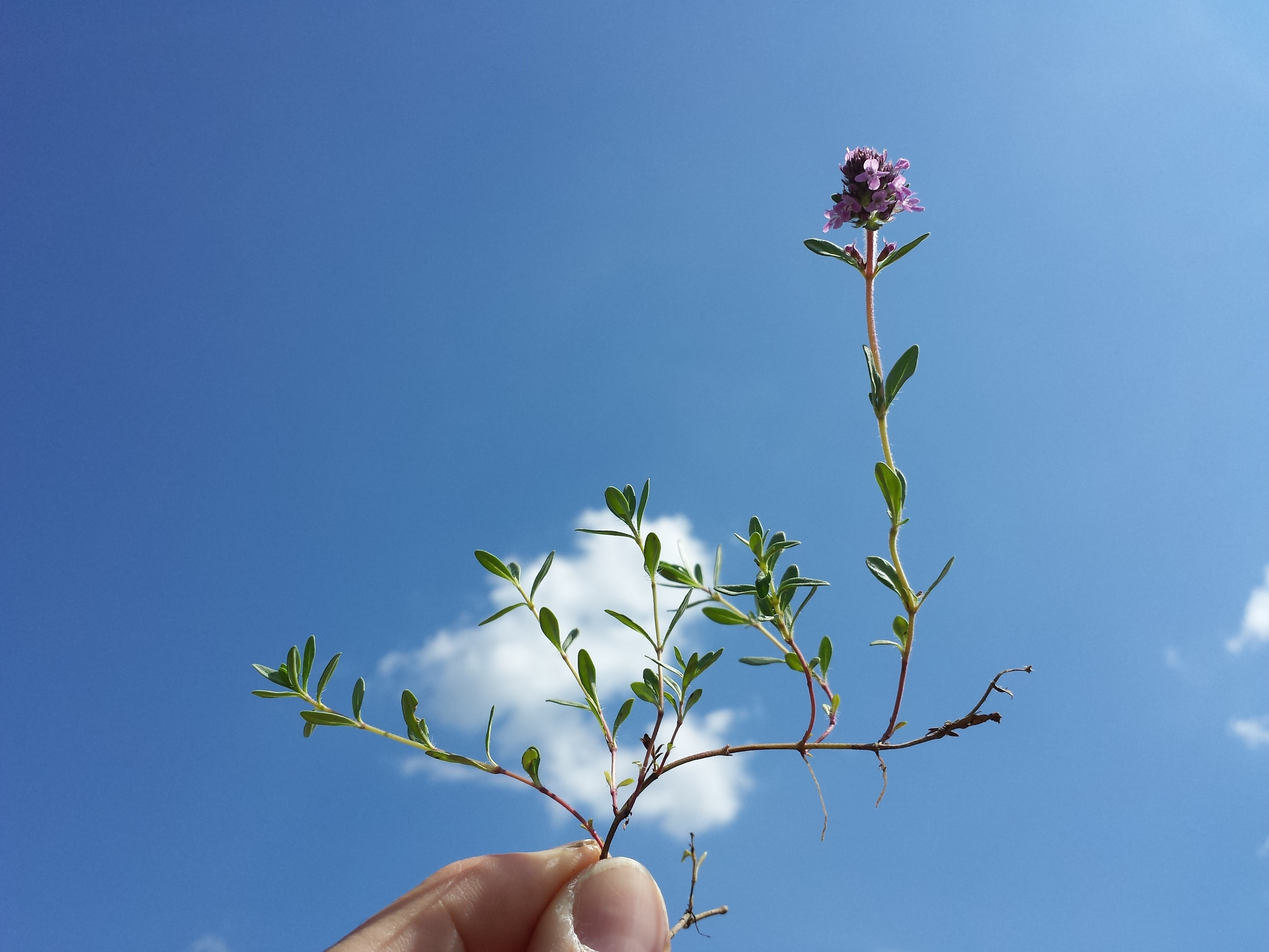 Habitus Taxonym: Thymus odoratissimus (cf., to Thymus pannonicus agg.) ss Fischer et al. EfÖLS 2008 ISBN 978-3-85474-187-9 Location: "In der Hölle" near Wetzleinsdorf, district Korneuburg, Lower Austria - ca. 250 m a.s.l. Habitat: dry grassland